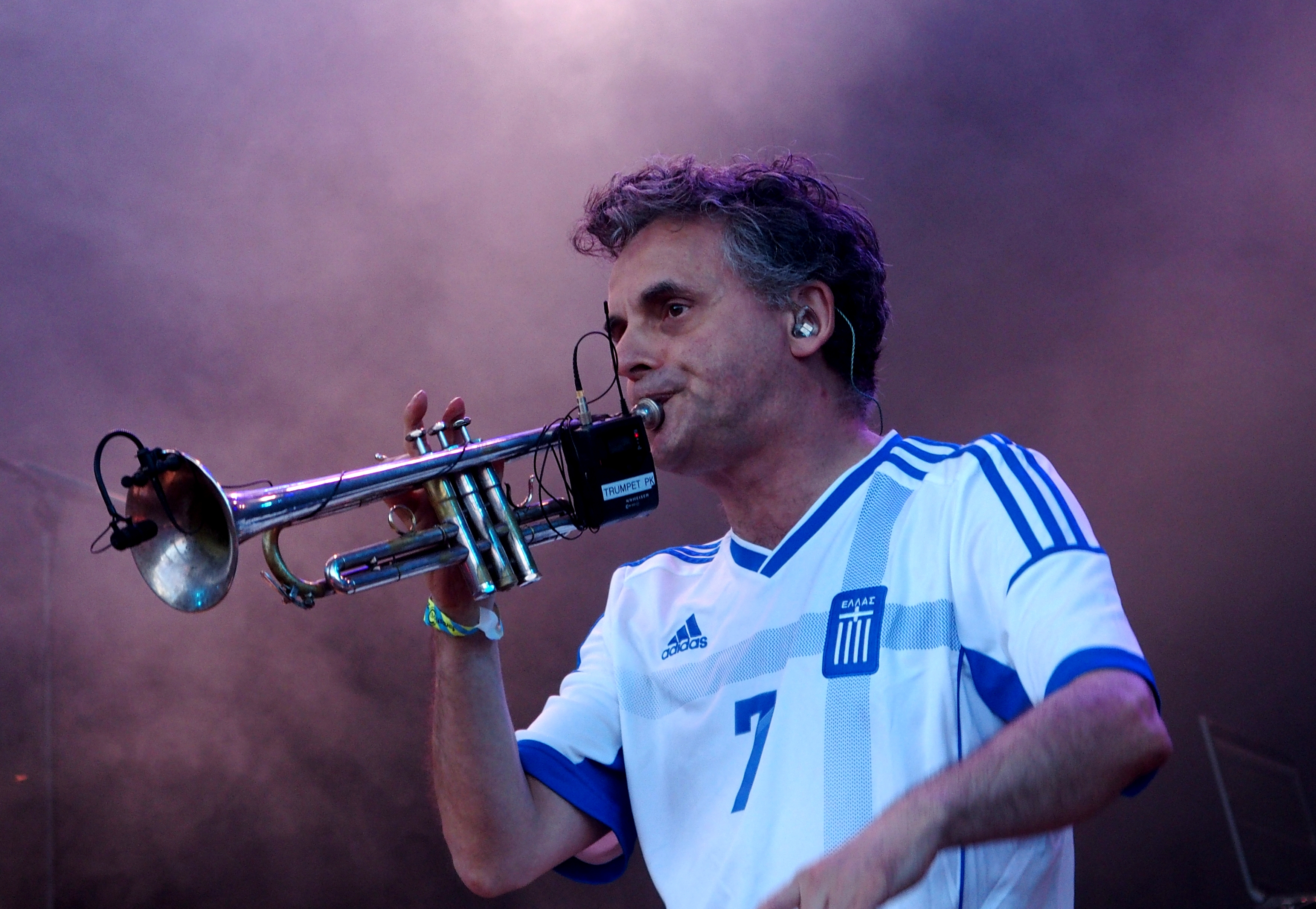 Andy Diagram plays with the band James during Delamere Forest gig, 5 July 2015